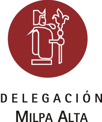 Milpa Alta's Logo based on the official image.